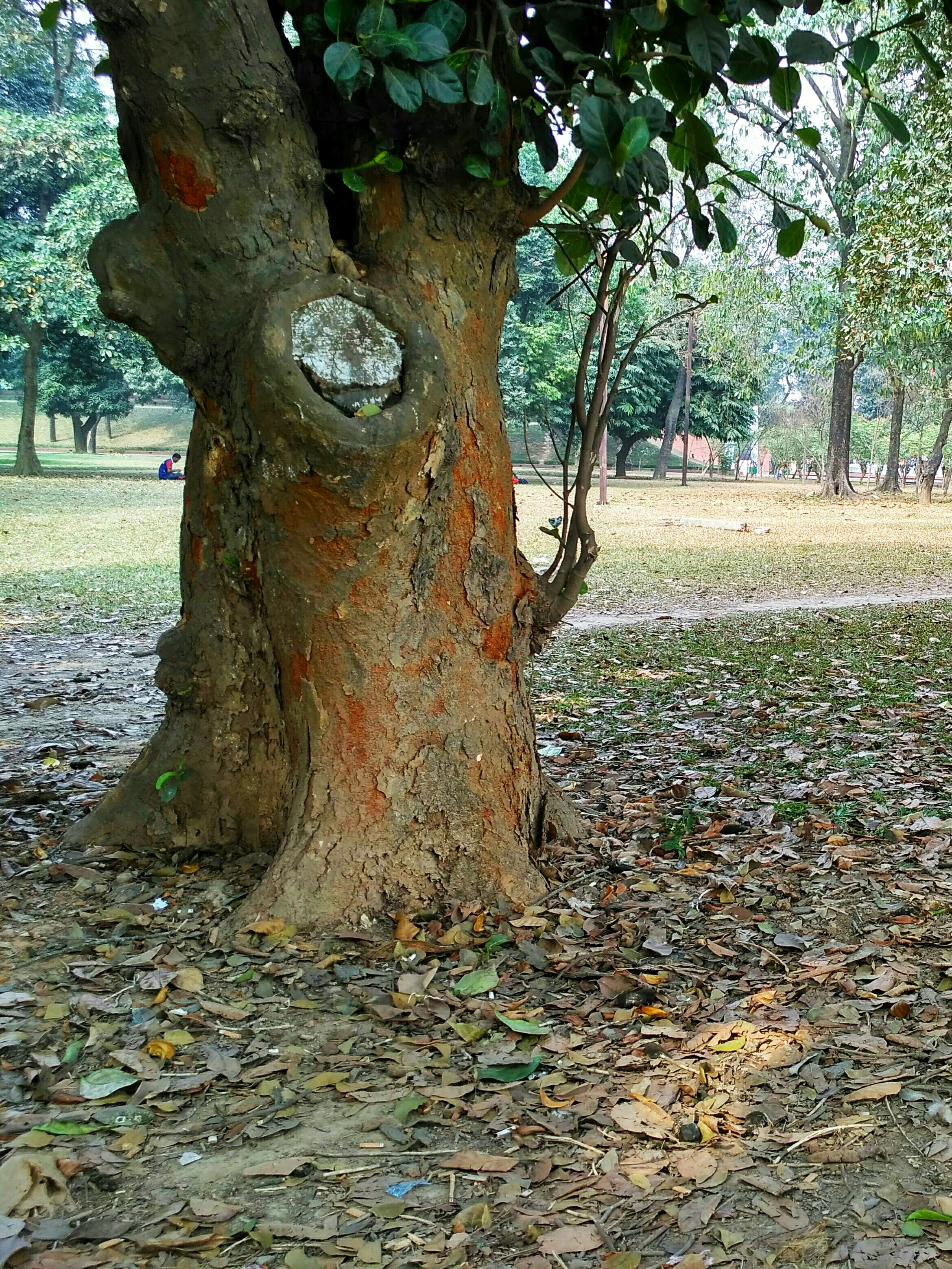 View of a stem of jackfruits tree at Suhrawardi Uddan. Dhaka.